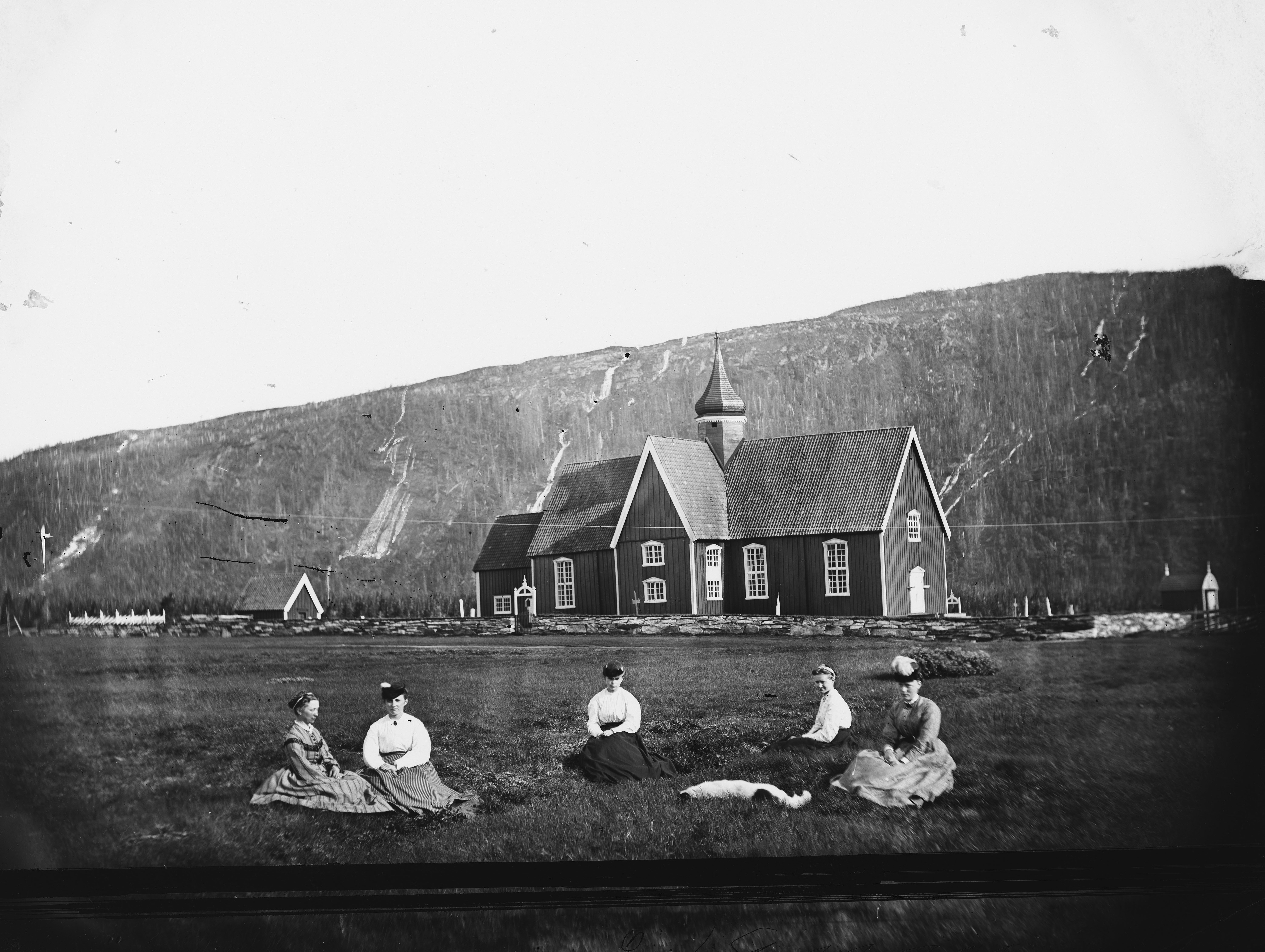 Tittel / Title: Mo Kirke set fra Nord med Gruppe. (Søster Milda). Beskrivelse / Description: Dato / Date: ca 1860-1900 Sted / Place: Nordland, Rana, Mo i Rana Fotograf / Photographer: Ole Tobias Olsen (1830-1924) Bildesignatur / Image Number: bldsa_OTO0320_A Digital kopi av original / Digital copy of original: negativ s/h glass, ca 16 (15) x 16,5 cm Eier / Owner Institution: Nasjonalbiblioteket / National Library of Norway Lenke / Link:"